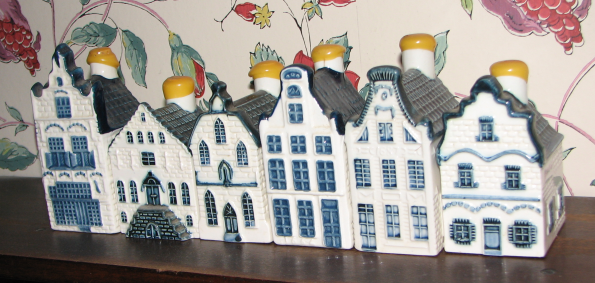 Photo by Bridesmill 02:23, 28 June 2006 (UTC)